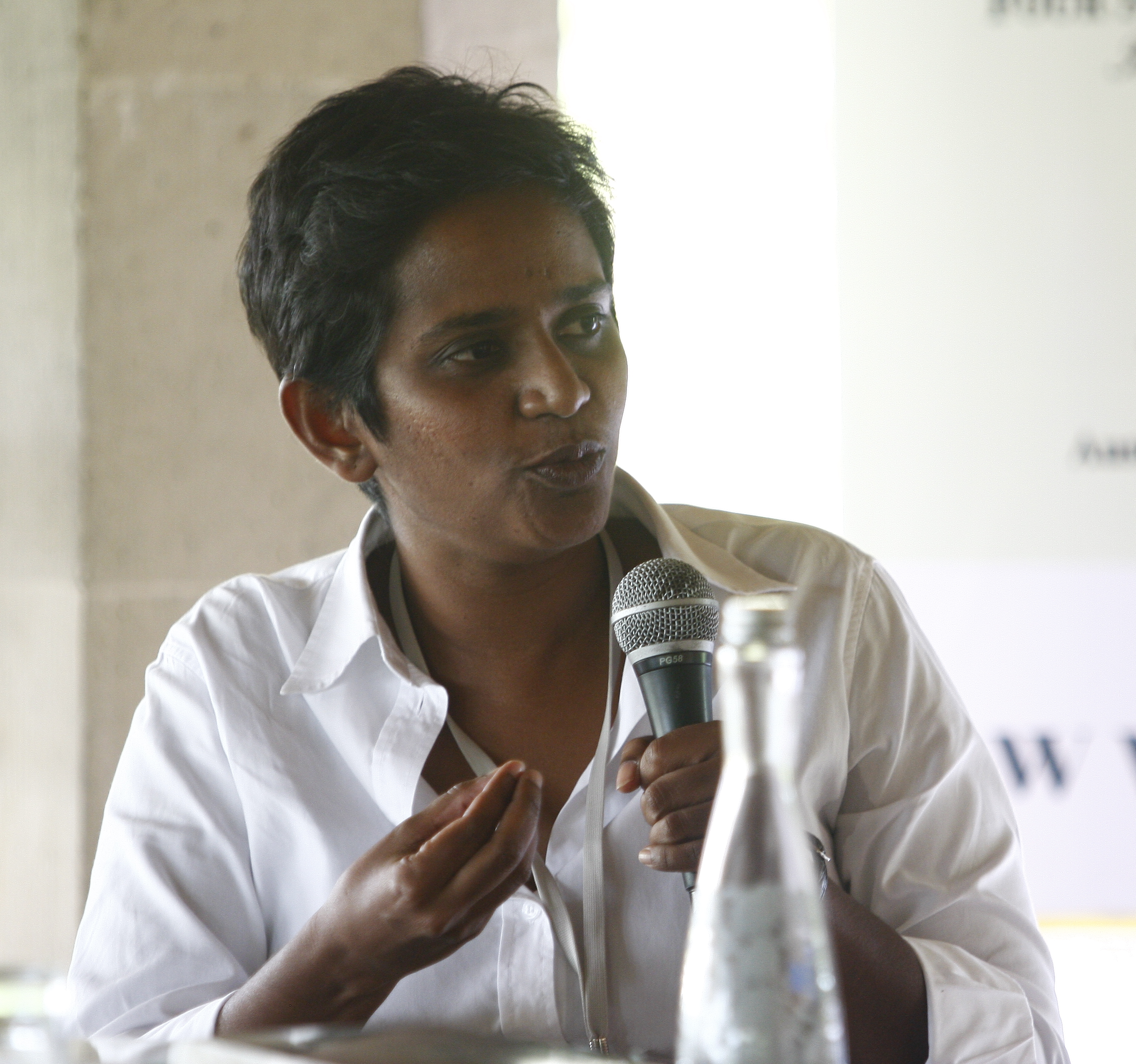 Ubud Writers & Readers Festival 2012. Image credit Stanny Angga.